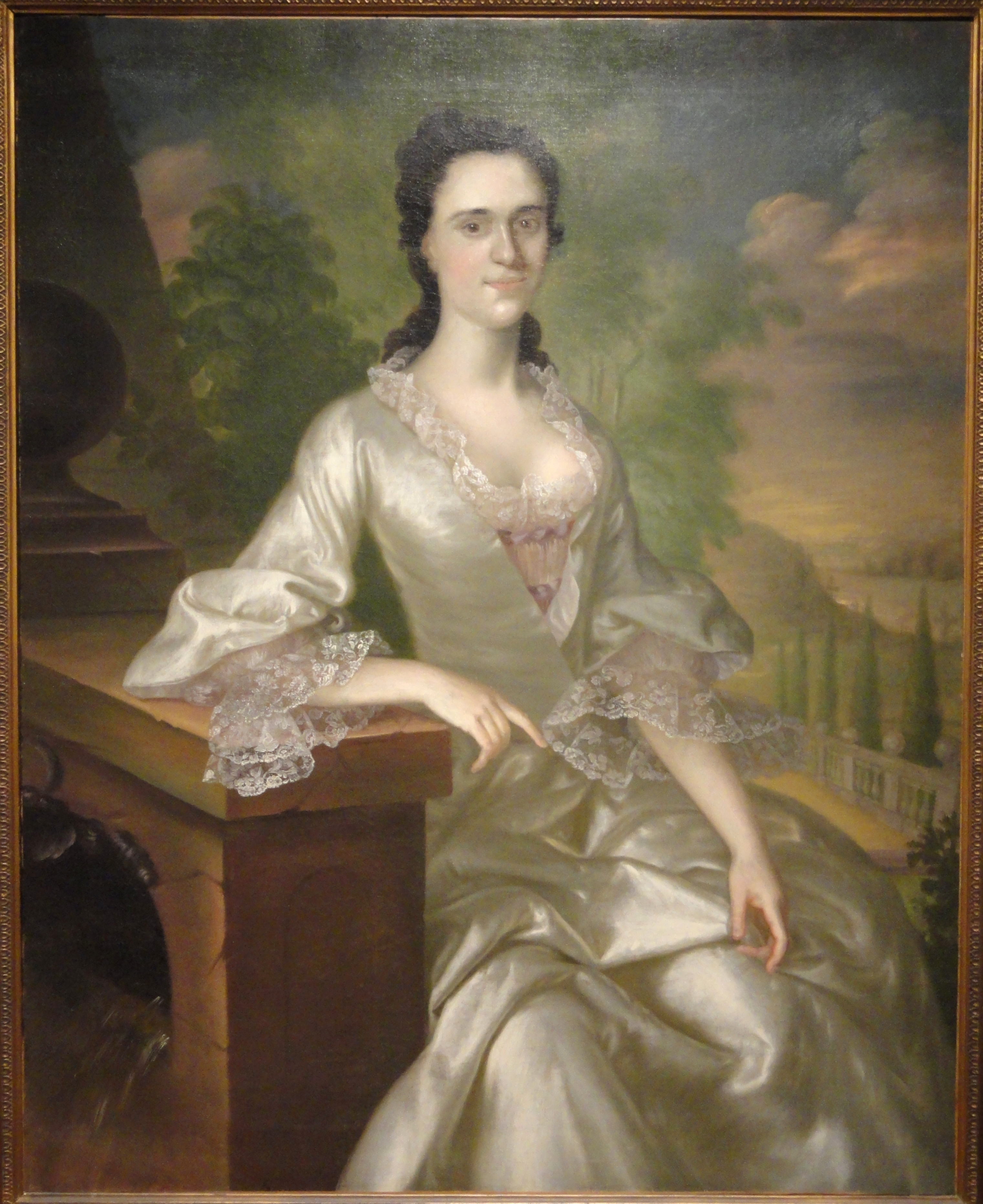 Portrait of Mary Faneuil Bethune